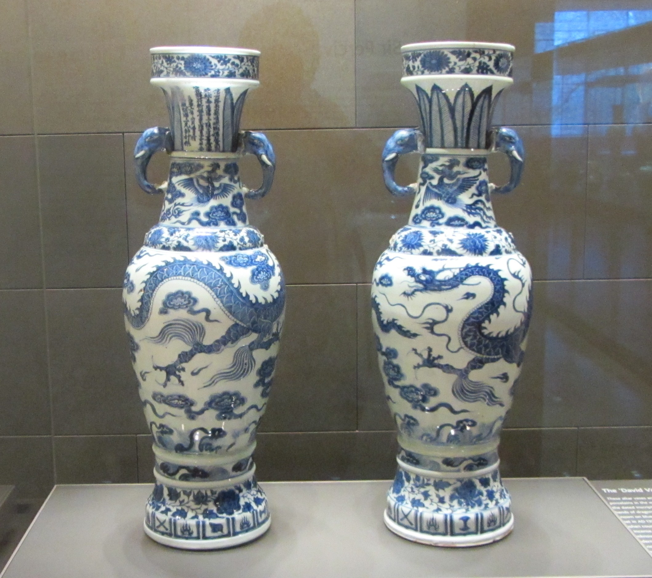 Pair of blue and white porcelain vases, known as the David Vases. Jingdezhen, dated equivalent to AD 1351. British Museum (PDF,B.613 and PDF,B.614).